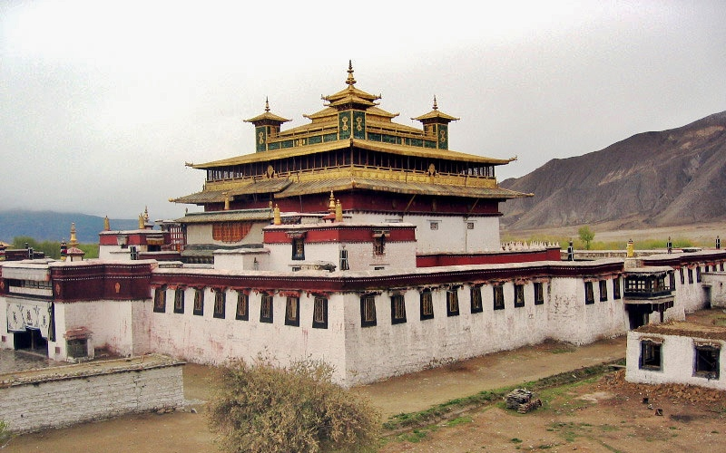 The oldest Buddhist monastery in Tibet (779 CE)